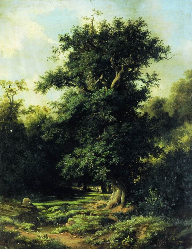 Old Oak by Lev Kamenev.